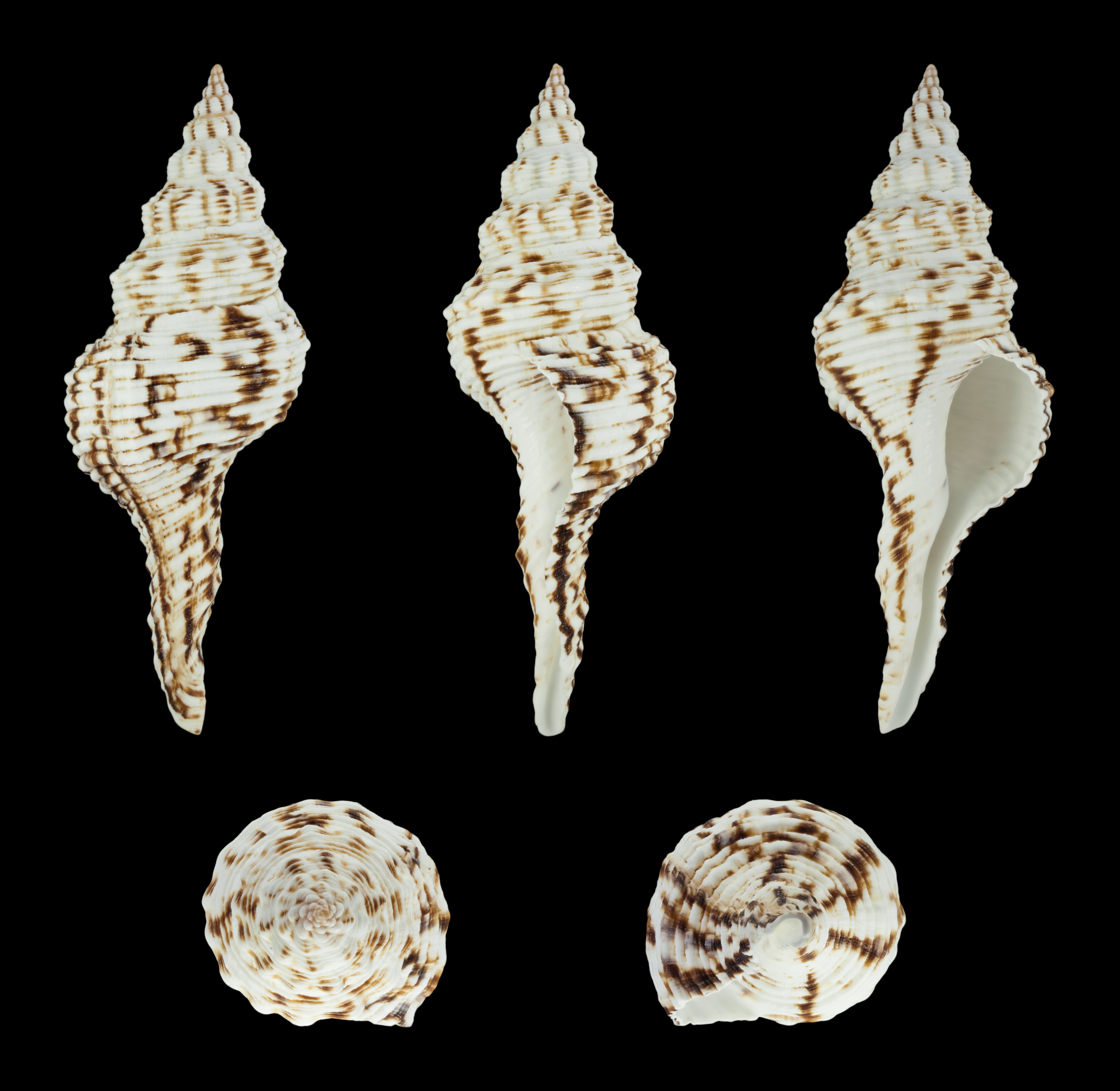 Marmorofusus nicobaricus (Röding, 1798), Nicobar Spindle; length 12.0 cm; Originating from Vietnam; Shell of own collection, therefore not geocoded.